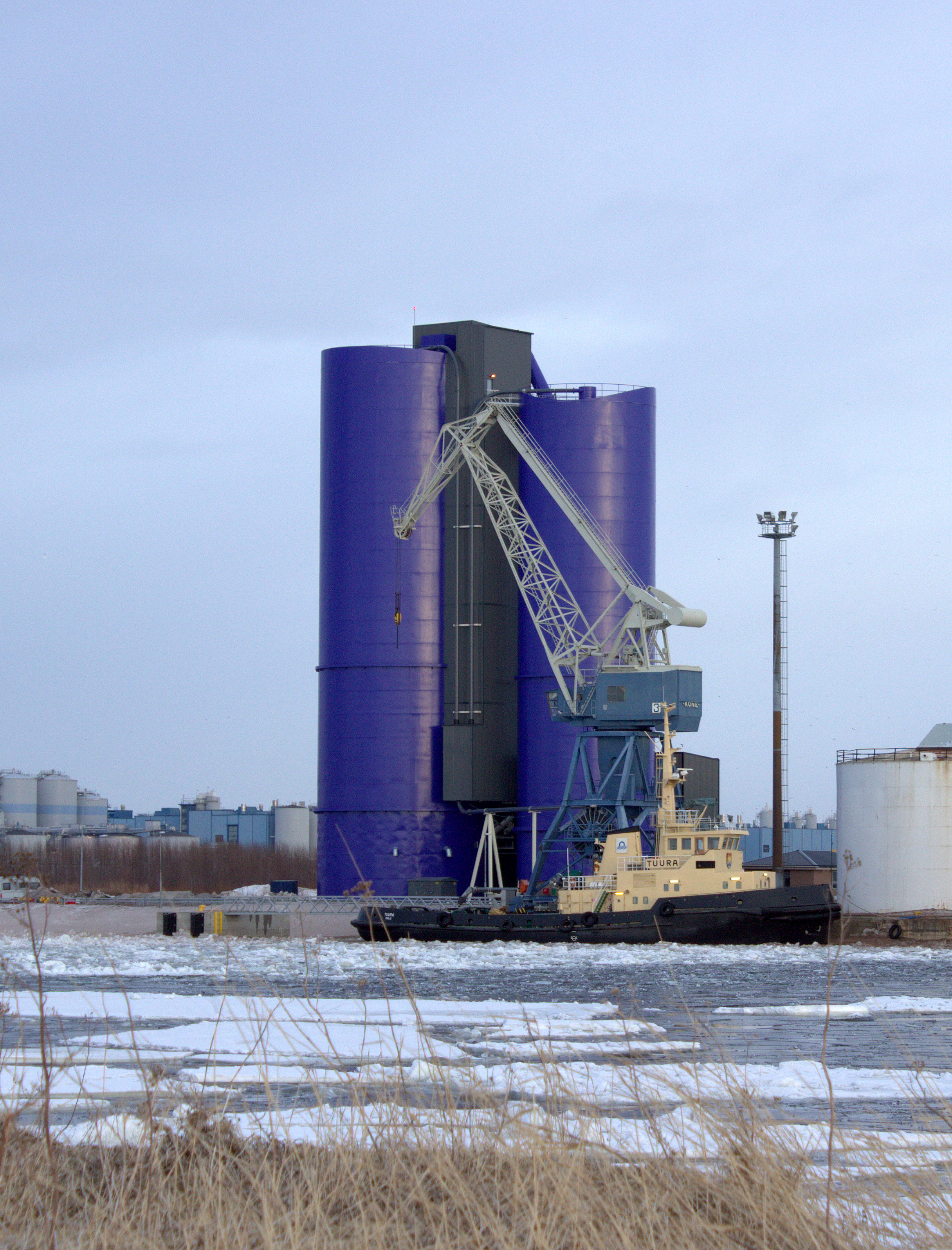 The tug boat and harbour ice breaker Tuura and the cement terminal of Finnsementti Oy in Vihreäsaari harbour in Oulu. The terminal was built in 2011.